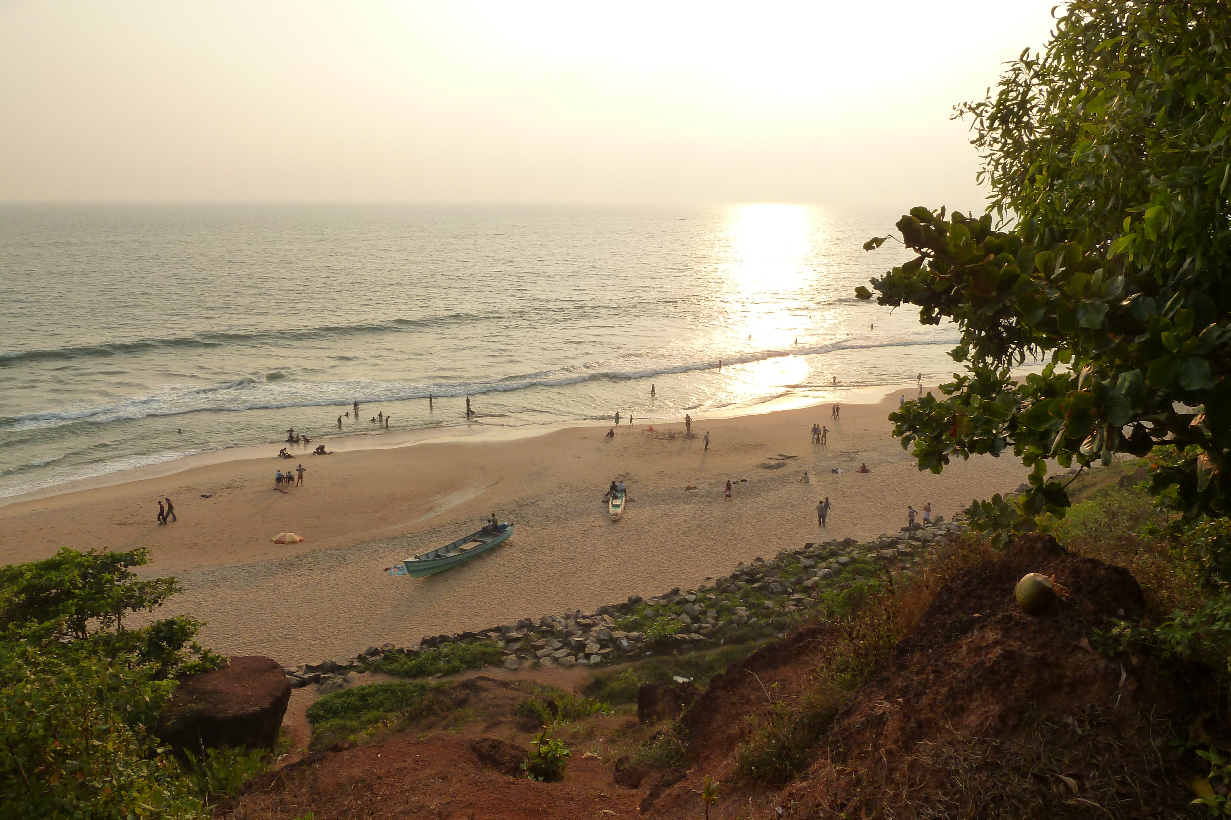 sunset at Varkala Beach